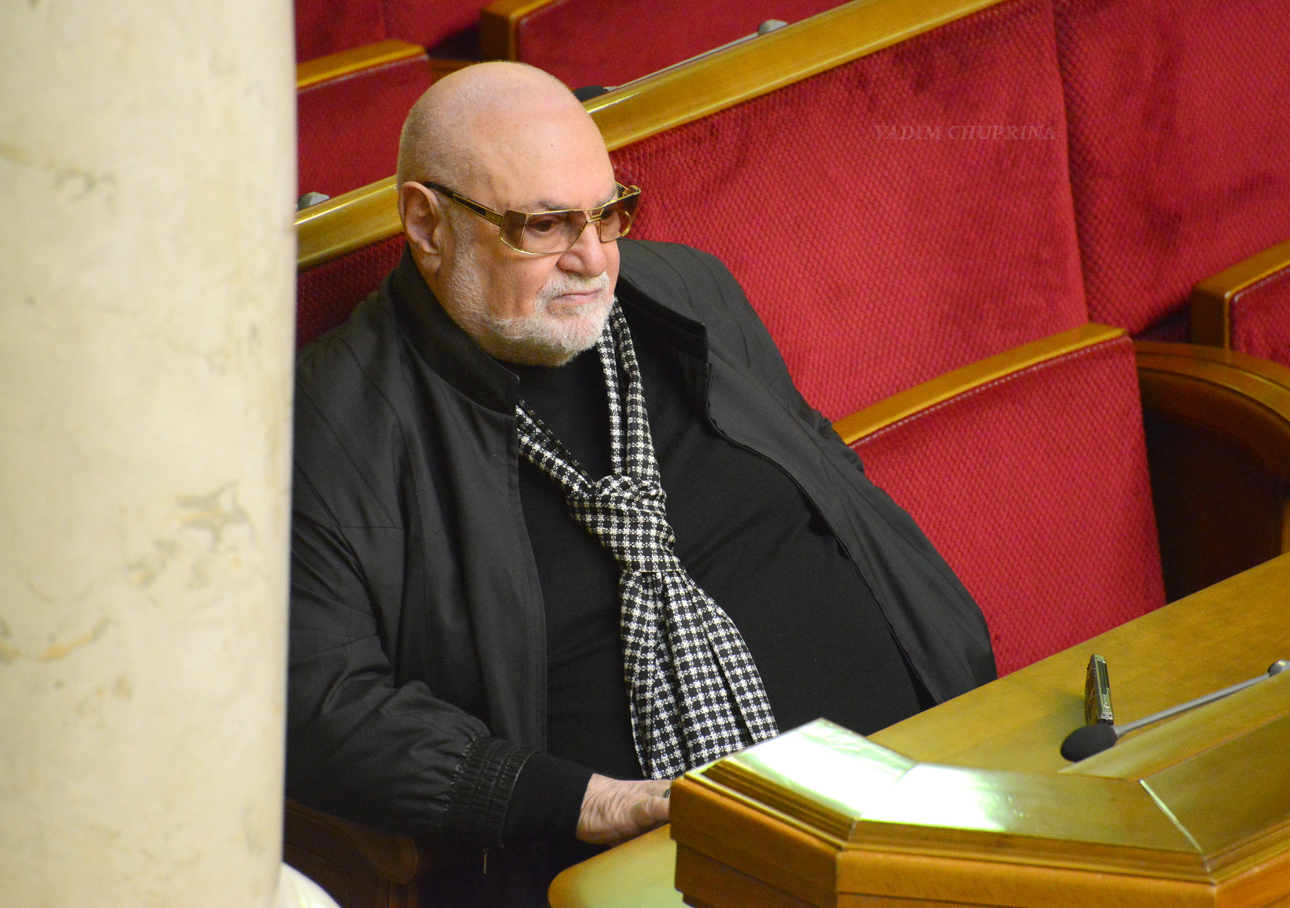 Ukrainian politicians VADIM CHUPRINA